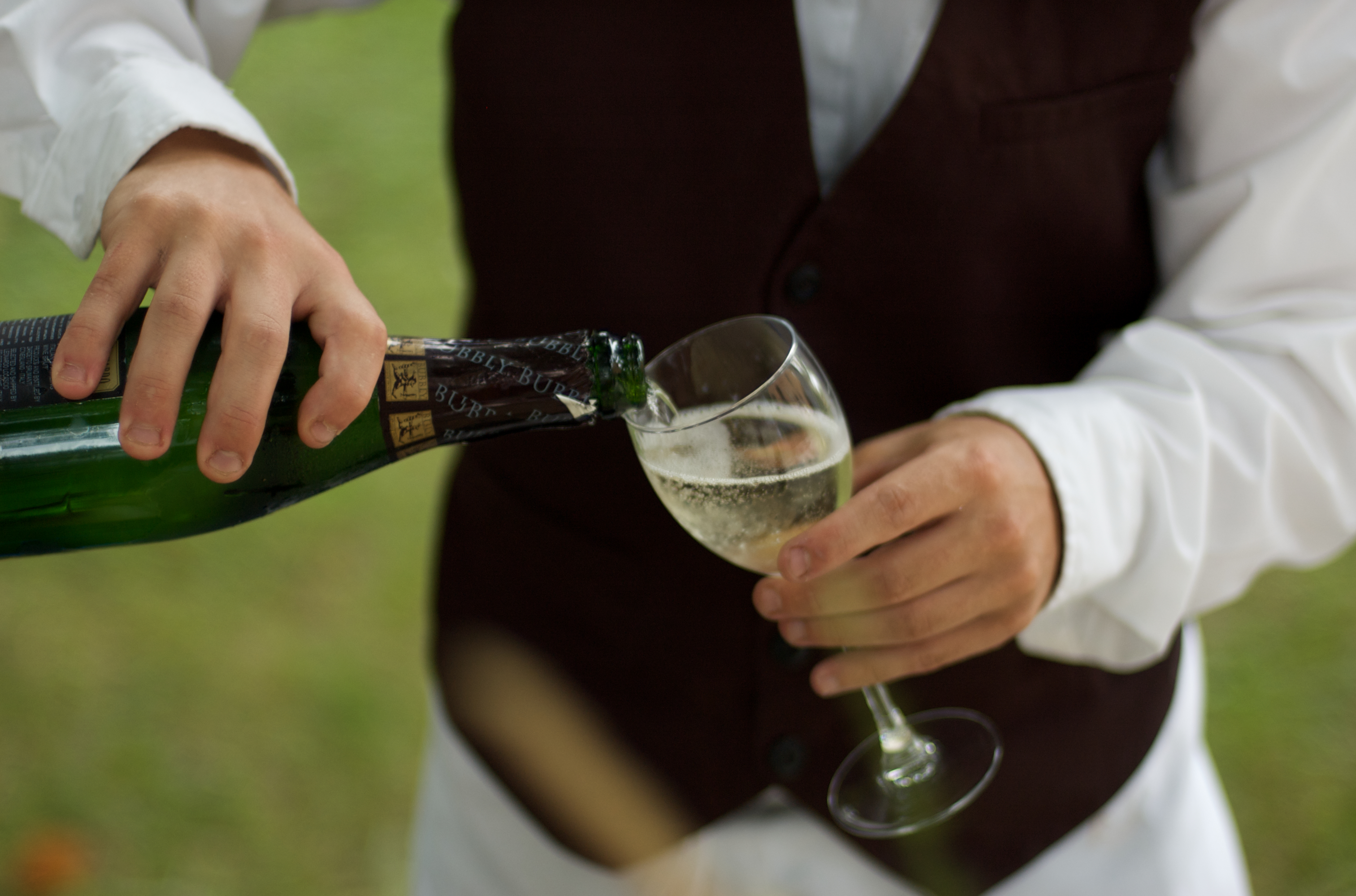 Wine service pouring a glass of the Italian sparkling wine.